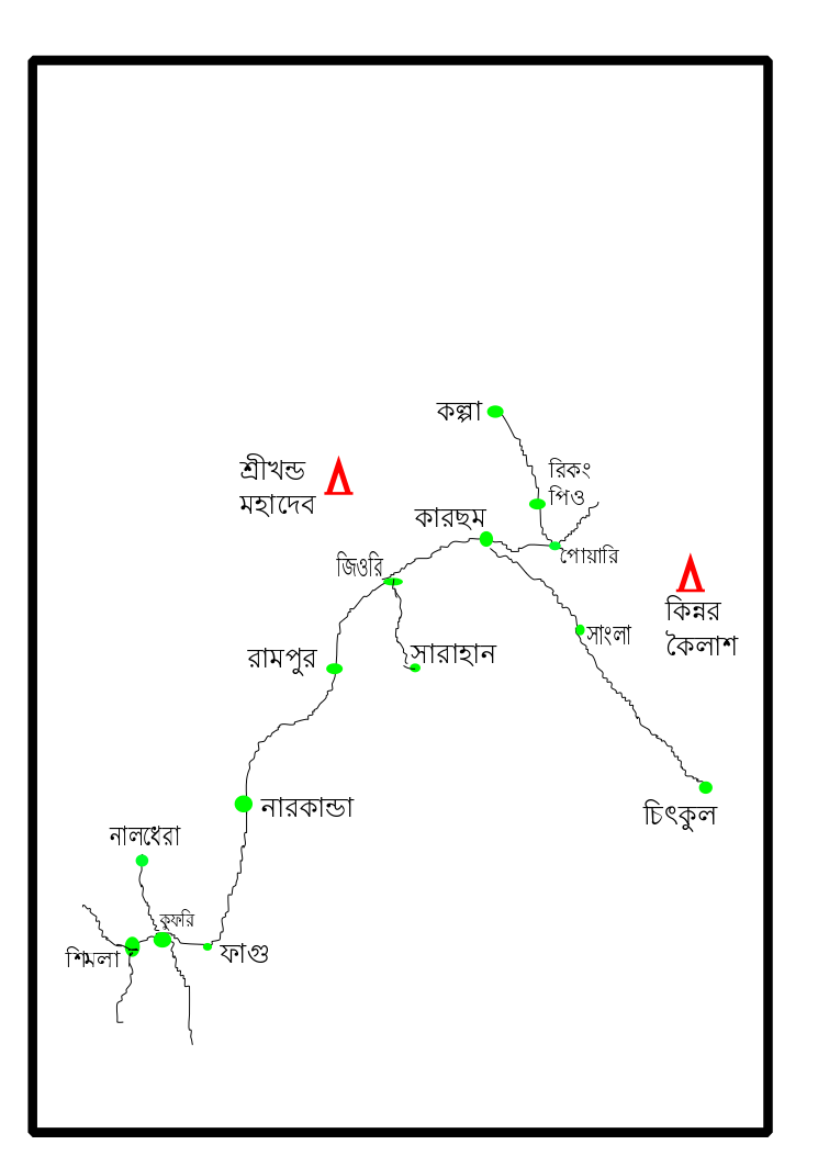 ShimlaKinnaurRoute map in Bengali